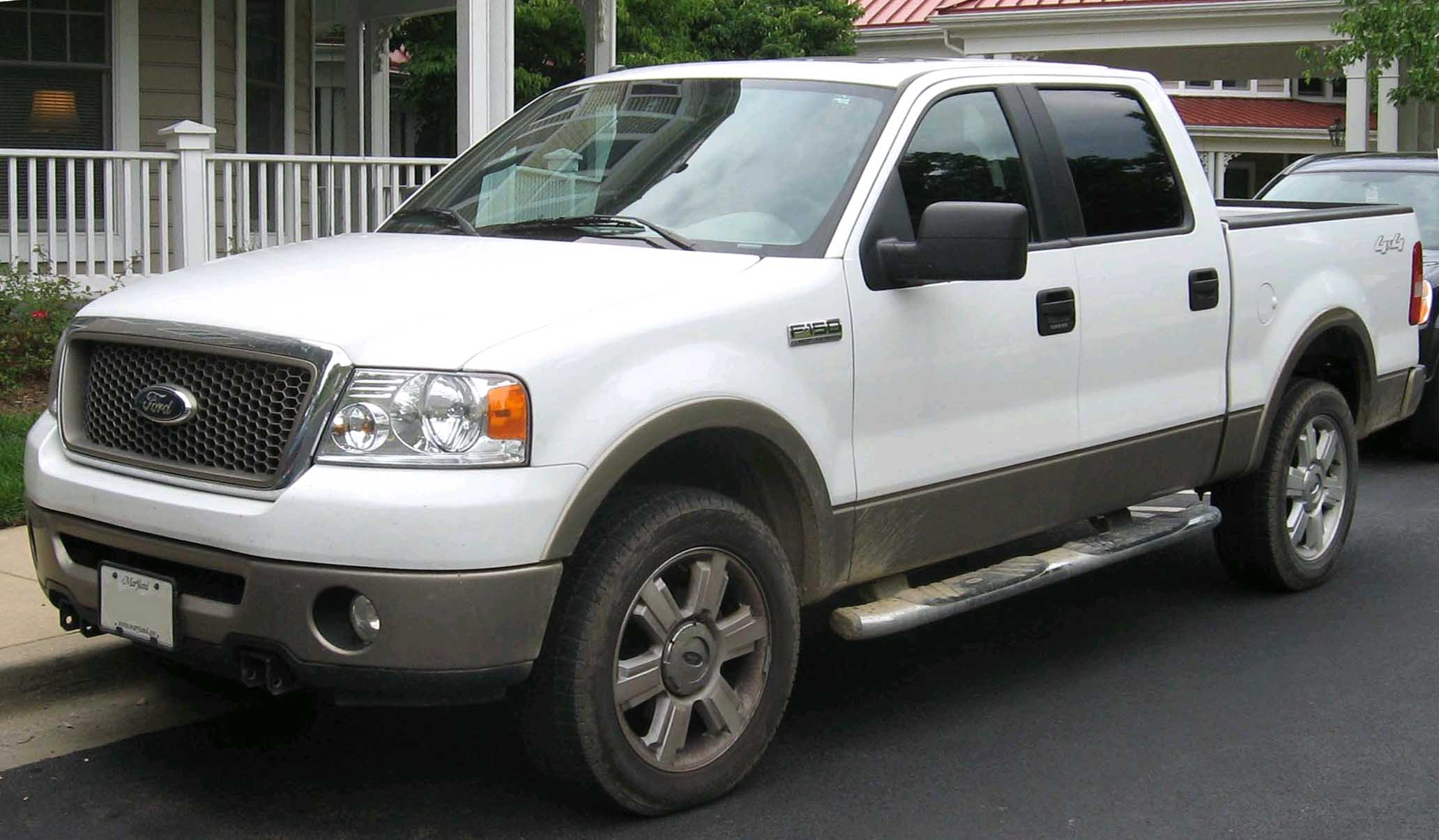 2004-2007 Ford F-150 photographed in Kensington, Maryland, USA.